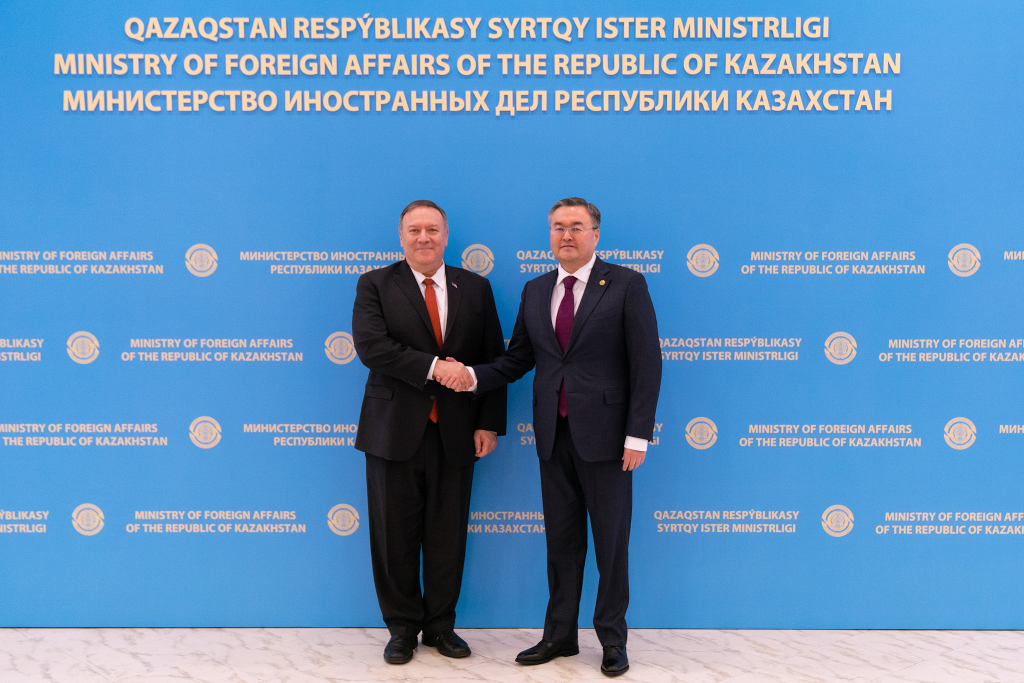 U.S. Secretary of State Michael R. Pompeo meets with Kazakhstan Foreign Minister Mukhtar Tileuberdi in Nur-Sultan, Kazakhstan, on February 2, 2020. [State Department Photo by Ron Przysucha/ Public Domain]